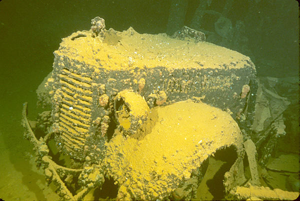 A Toyota KB (designated Type 1 in military service) truck in the hold of the Hoki Maru wreck, Truk Lagoon, Micronesia